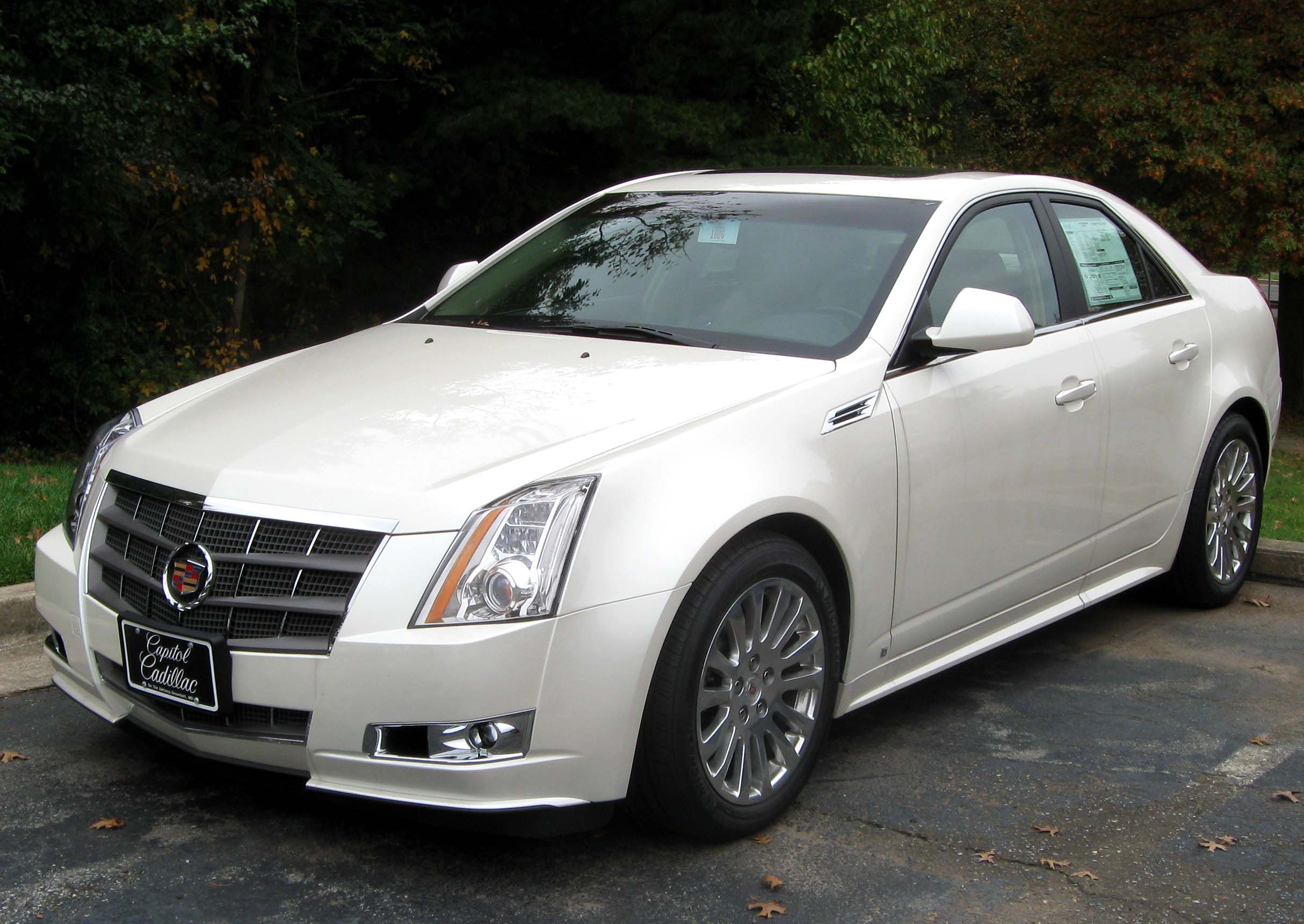 2010 Cadillac CTS AWD Premium Collection photographed in Greenbelt, Maryland, USA.